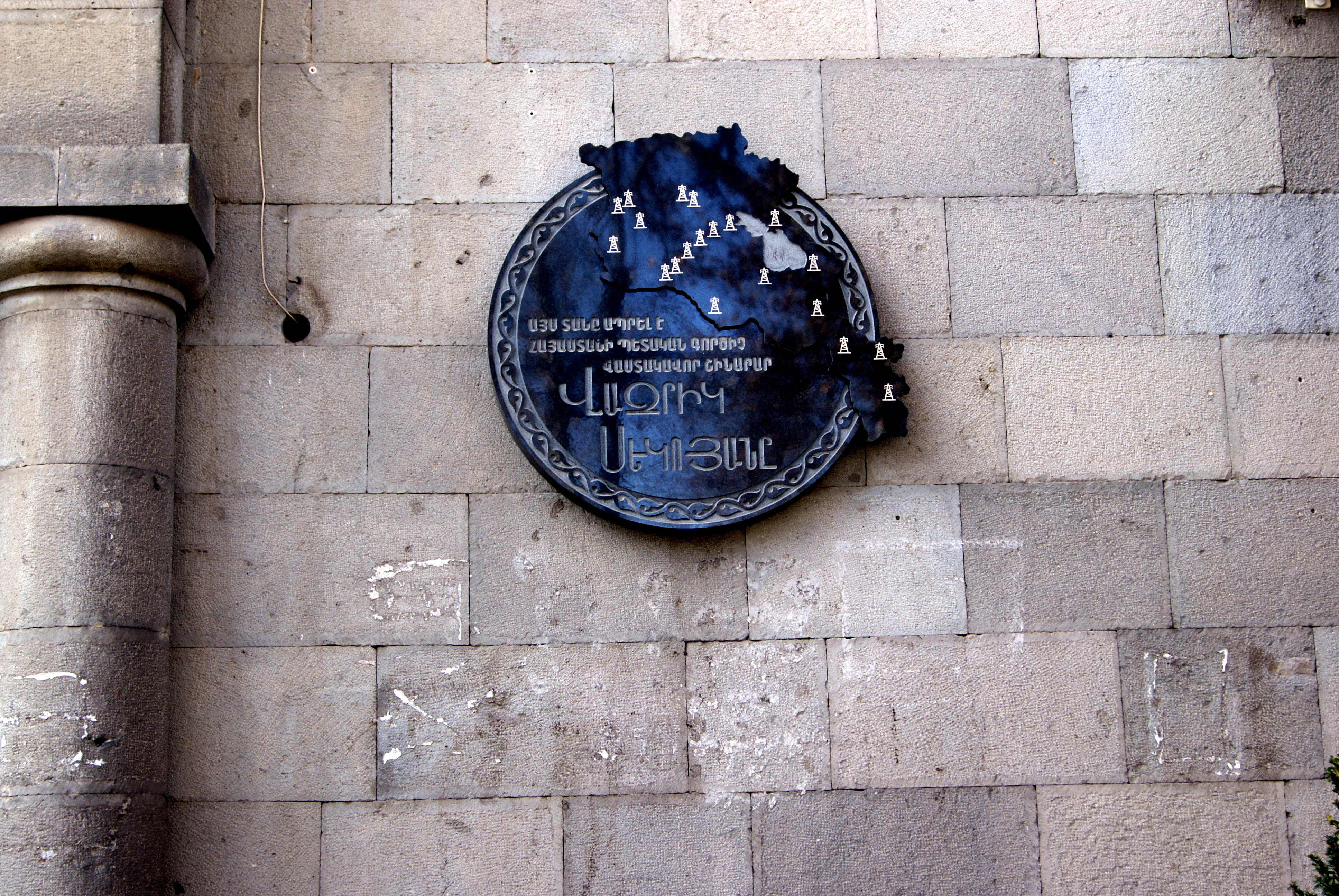 Zoryan Street, Yerevan, Vazrik Sekoyan's plaque